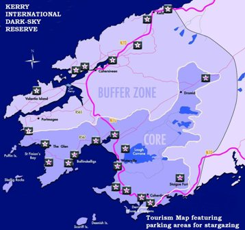 This is part of the Kerry International Dark-Sky tourism map showing over 20 free parking areas where one can safely stargaze. Go to the Kerry Dark Sky website to download a PDF of the map.